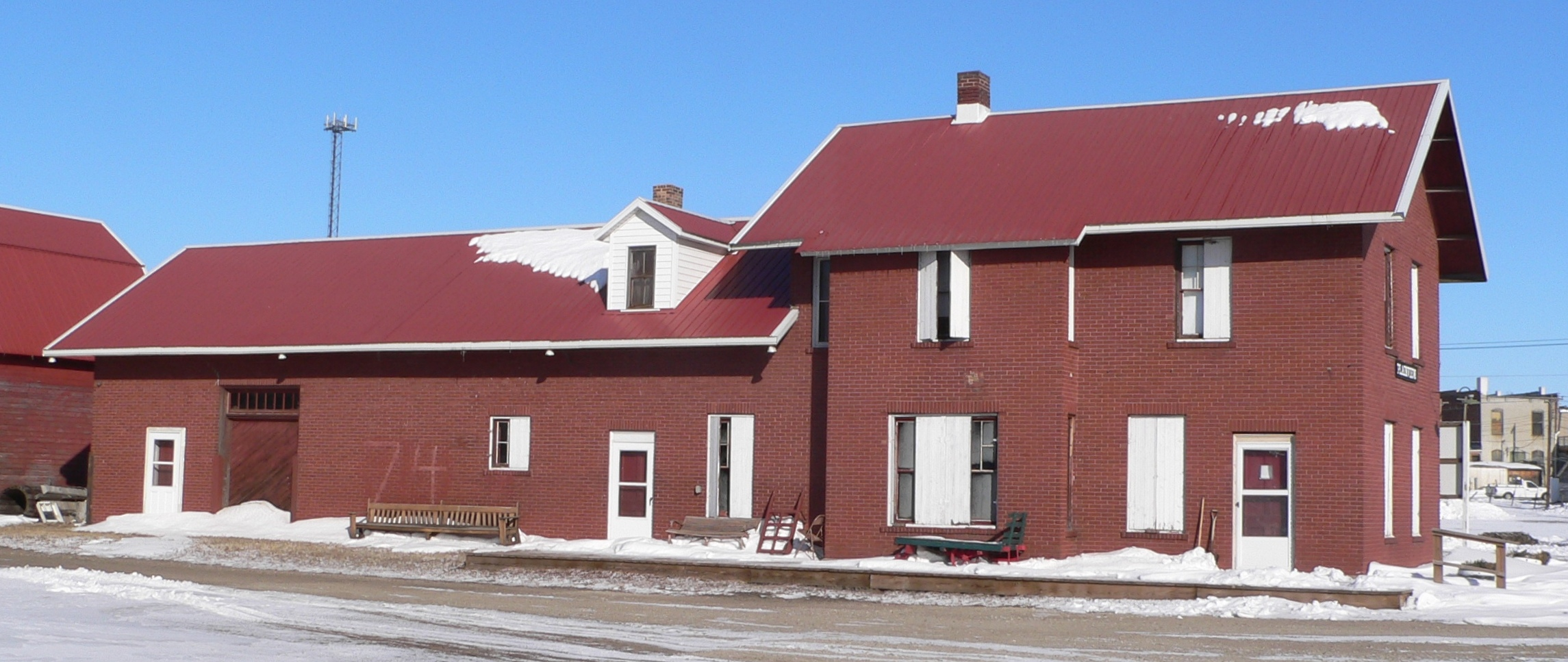 Plainview Historical Museum in Plainview, Nebraska; seen from the southwest. (The building's long side runs southeast-northwest.) Originally the Fremont, Elkhorn and Missouri Valley Railroad Depot, it was built in 1880. It is listed on the National Register of Historic Places.